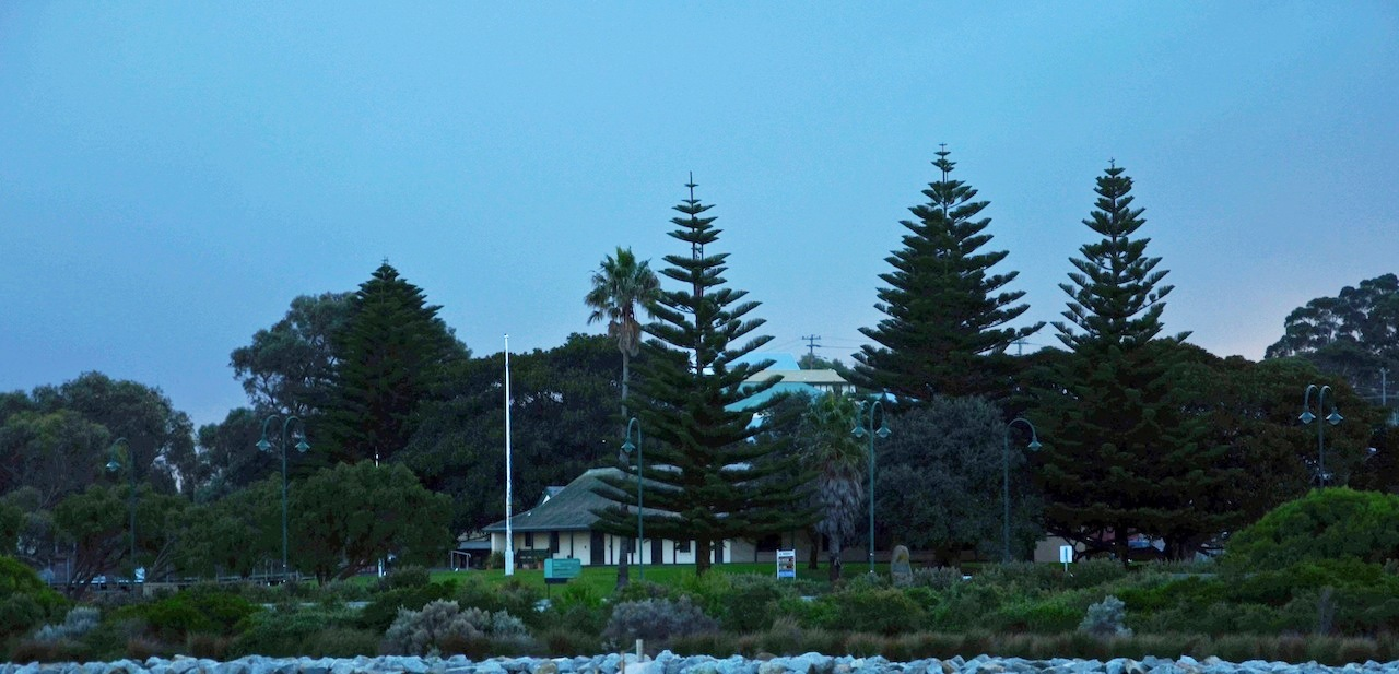 Museum building and grounds Albany